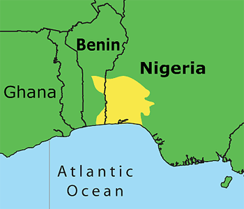 Map showing the homestead of the Yoruba people